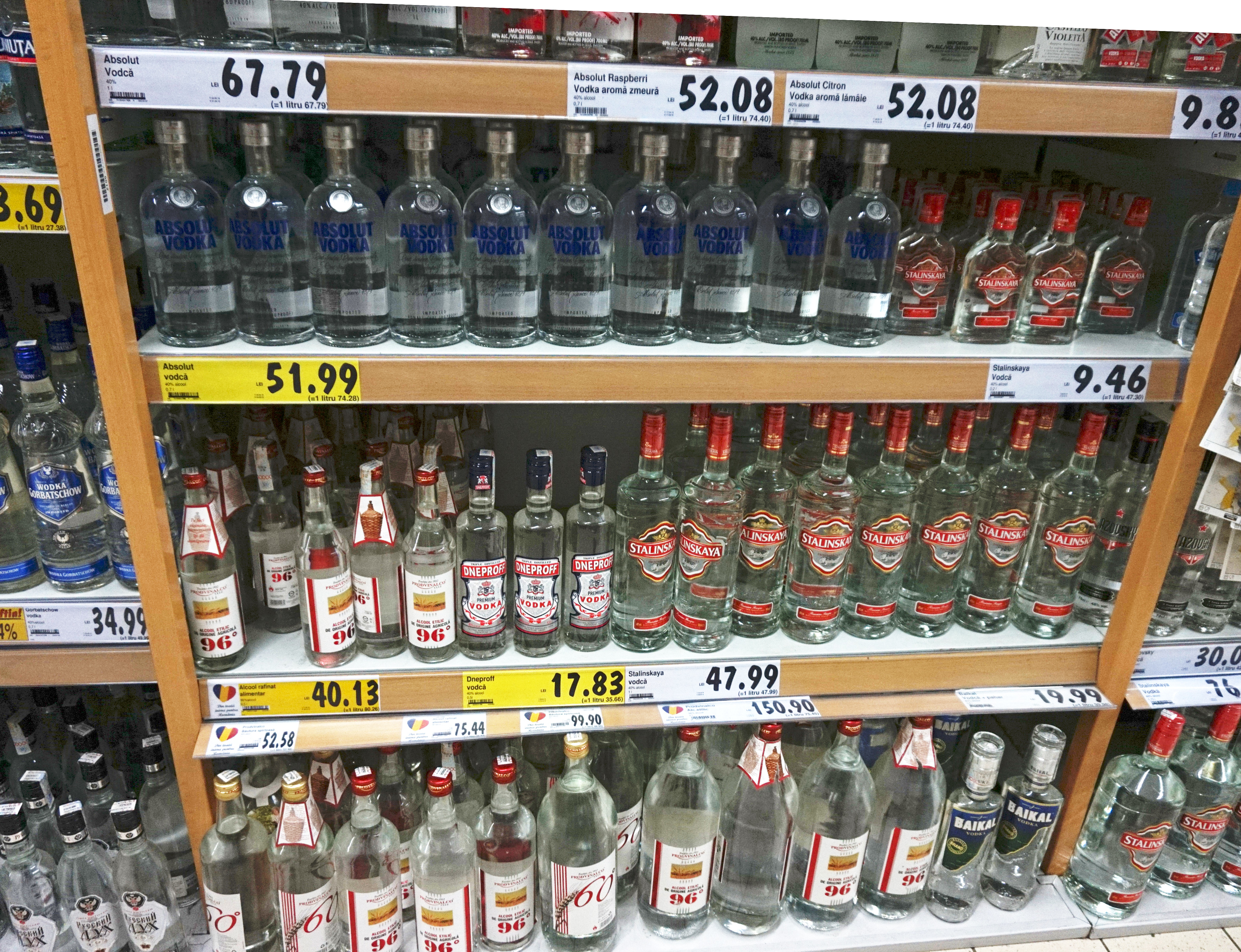 Alcohol in supermarket, Giurgiu.This photograph was taken with a Sony ILCE-5000